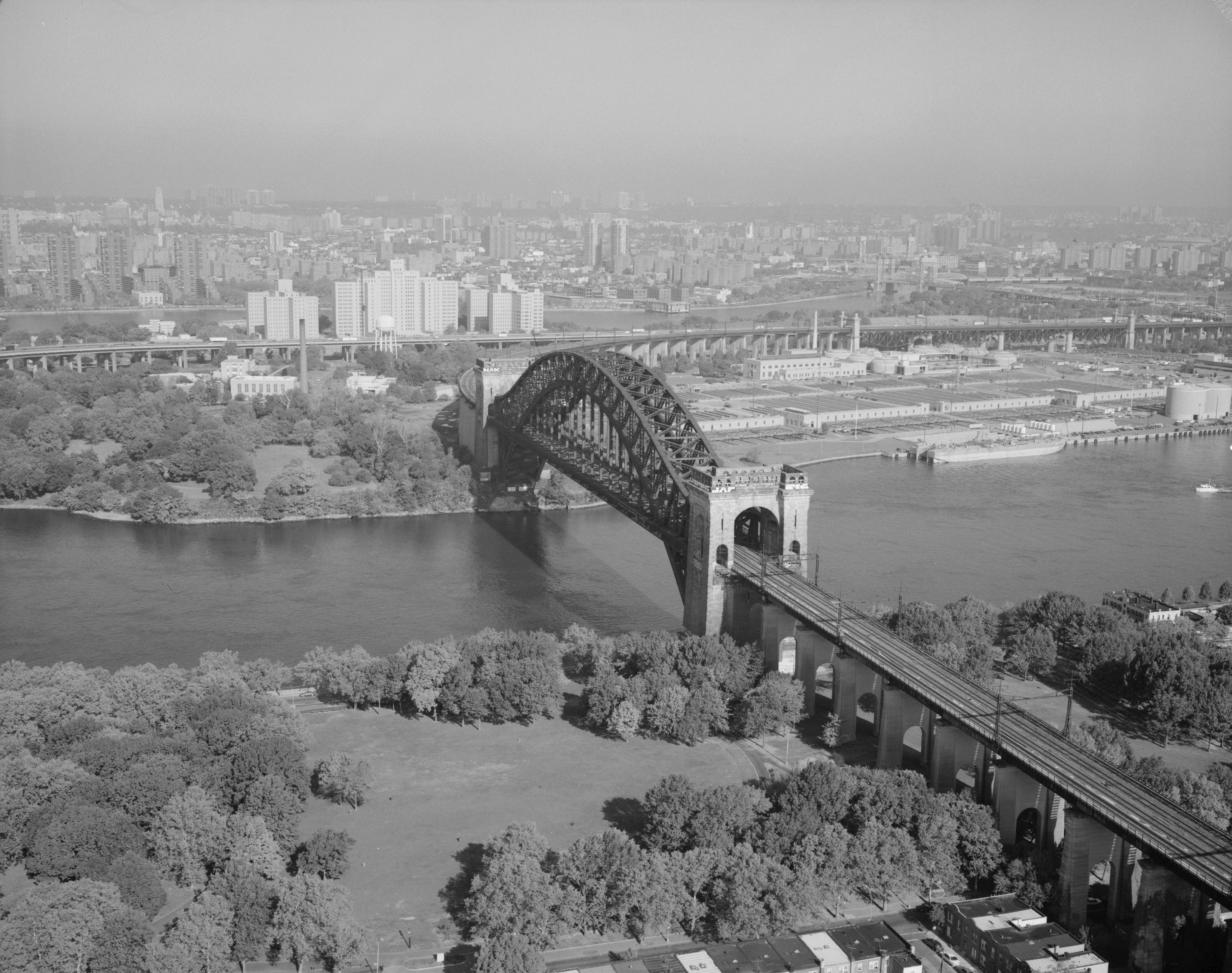 New York Connecting Railroad, Hell Gate Bridge, Spanning East River, Wards Island & Astoria, New York, New York County, NY. From east looking northwest, with Queens in the foreground